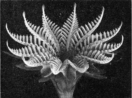 A reconstructed fossil cycad.